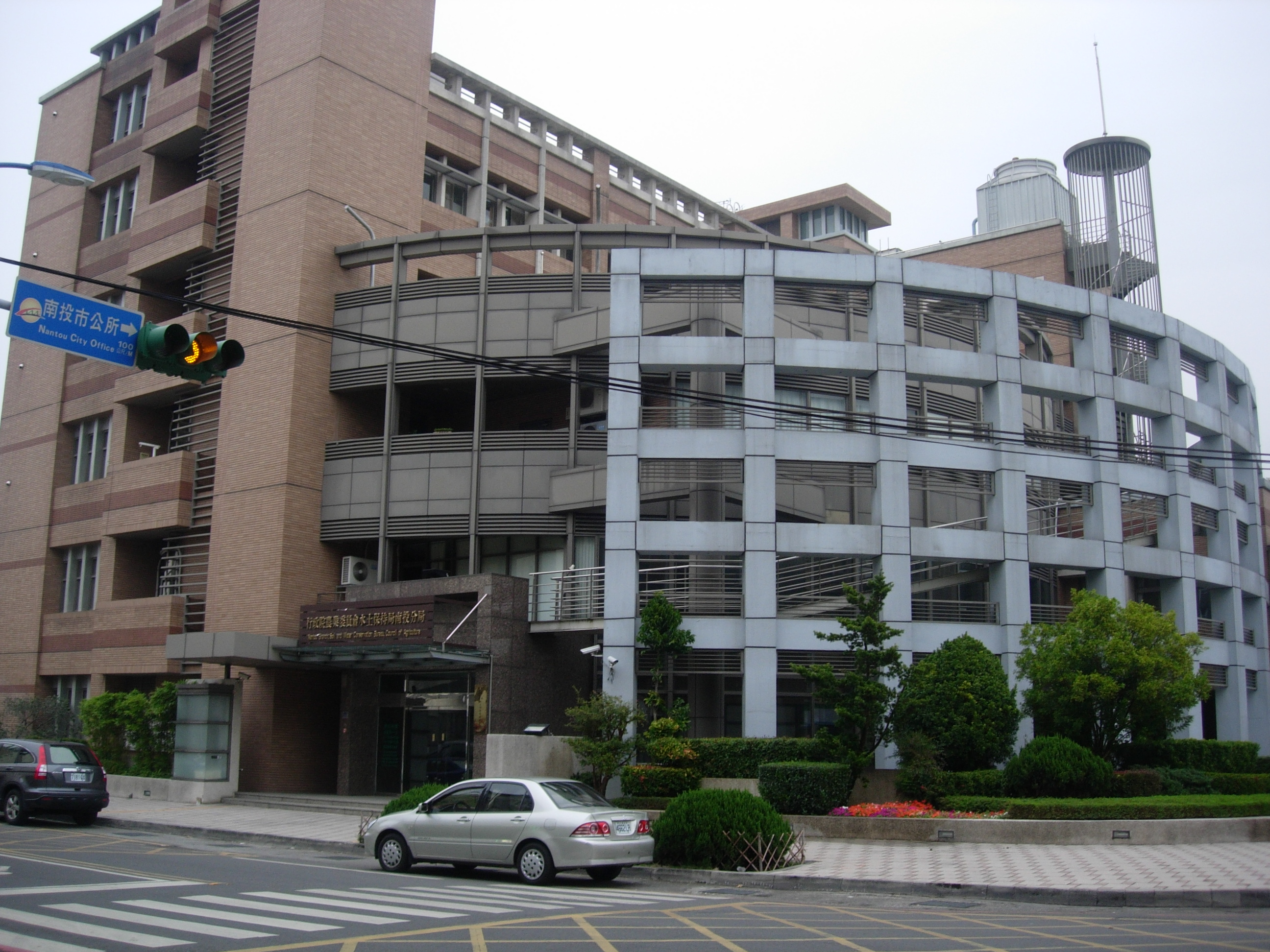 Nantou Branch, Soil and Water Conservation Bureau, Council of Agriculture, Executive Yuan.